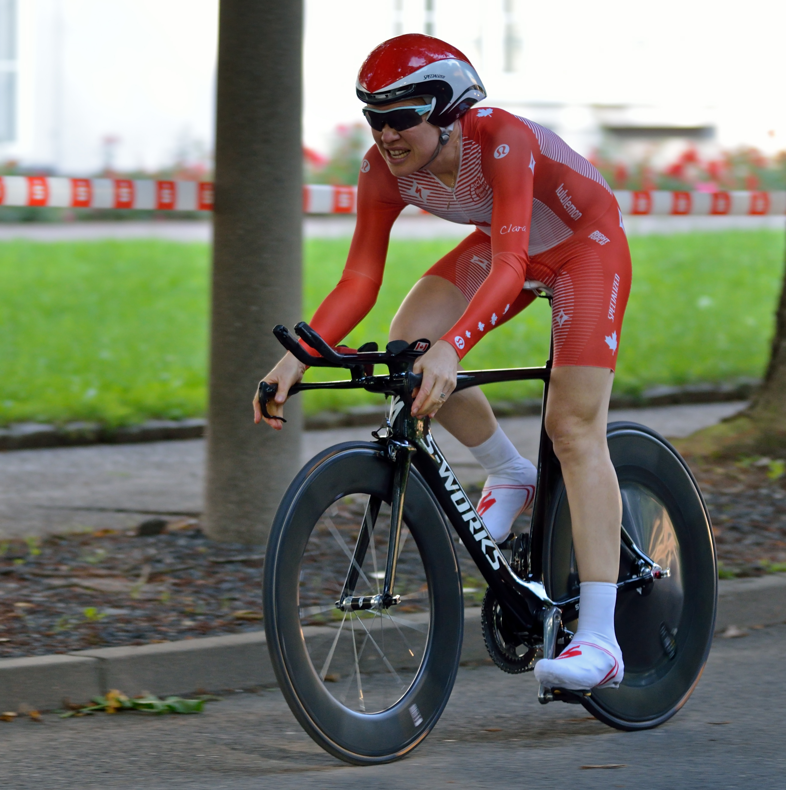 Clara Hughes from the Specialized-lululemon team during the Women's Tour of Thuringia 2012 in Zwickau, Germany.